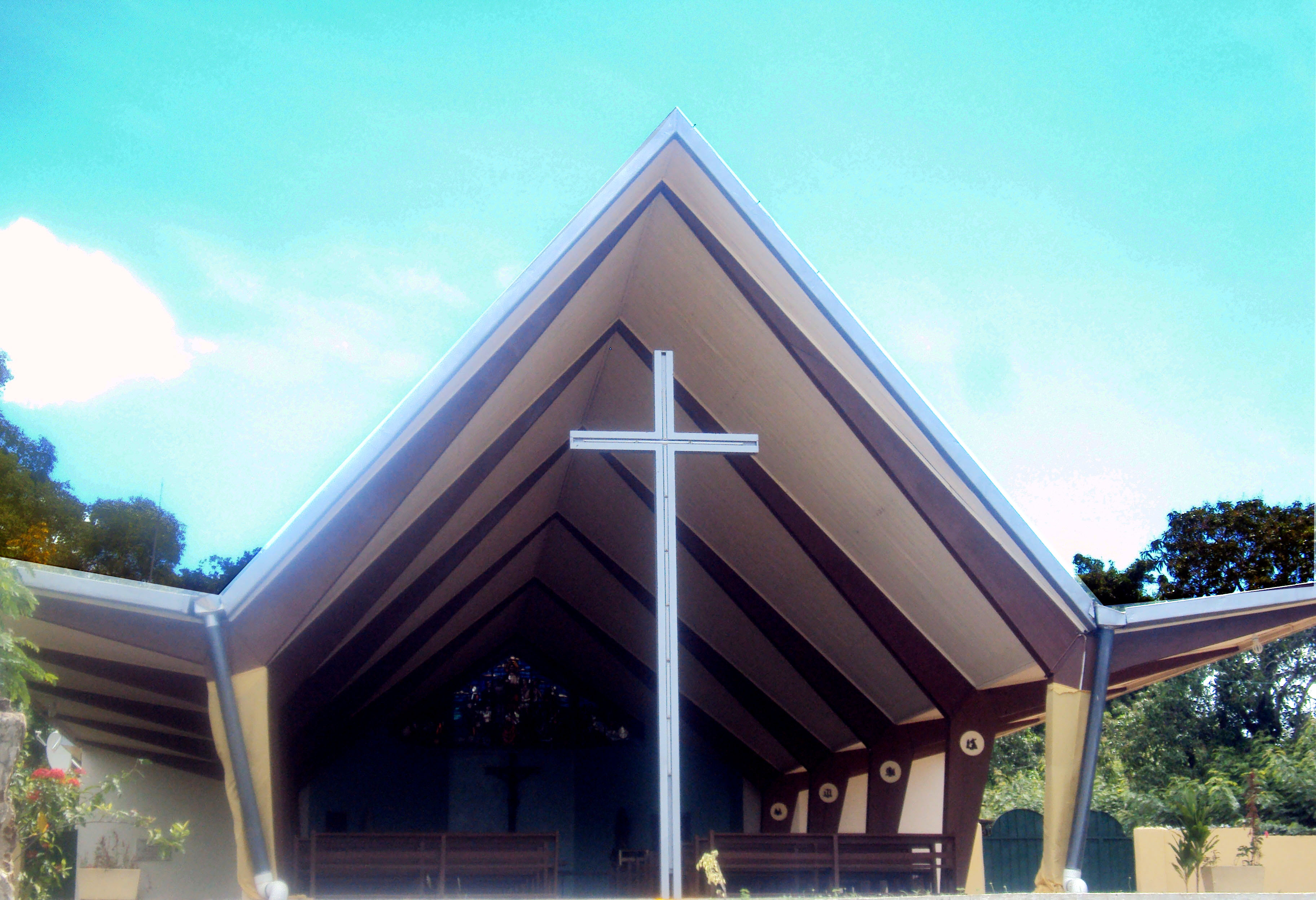 Saint Barbara Catholic Church also known as Santa Barbara Catholic Church is a small church situated at one of the highest points in Akosombo, overlooking the dam. It was constructed in September 1962 by Impregilo SPA within 21 days. It was built as a place of worship by the staff of Impregilo to seek God’s guidance and protection for the building of the Akosombo Dam. Subsequently a memorial plaque was placed in the church to honor the 28 staffs of Impregilo SPA who died building the dam. The chapel was dedicated by Cardinal Giovanni Montini (Pope Paul VI) when he visited Ghana in 1962